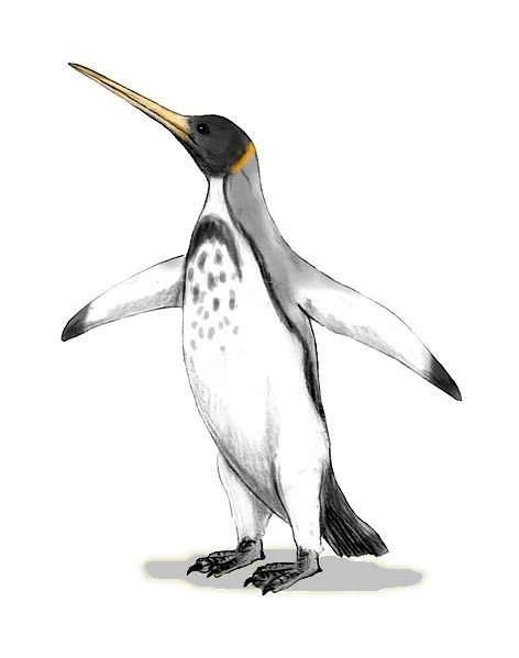 Icadyptes salasi, a giant penguin from the Late Eocene of Peru, after Clarke, 2007, pencil drawing, digital coloring